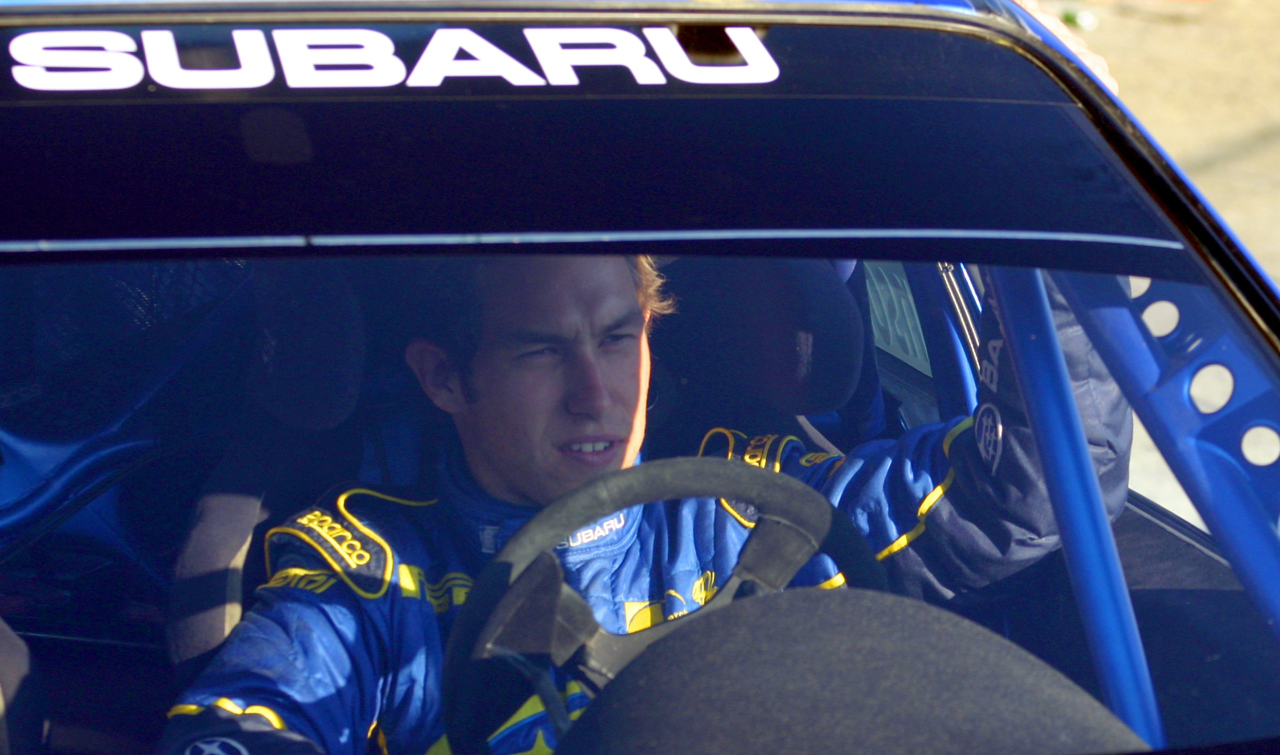 Chris Atkinson at the 2006 Rally Cyprus